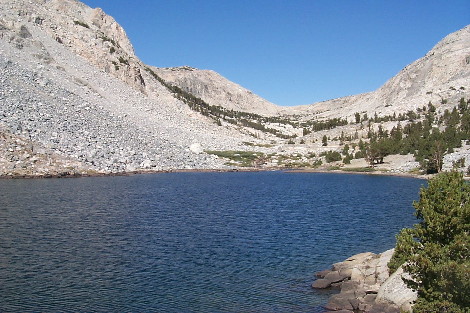 Loch Leven near Paiute Pass, John Muir Wilderness, Sierra Nevada, California, United States